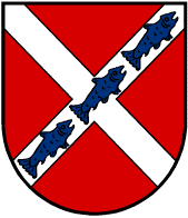 Wappen der Gemeinde St. Andrä Source: "Fahnen-Gärtner GmbH, Mittersill" This file depicts a coat of arms. The composition of coats of arms are generally public domain with respect to copyright laws, and may be reproduced freely. This corresponds to the international traditional usage, and is explicitly stated in some national copyright laws. Some compositions, of more recent origin, may be copyrighted. This is not a valid license as such, being a "public domain" statement for the coat of arms definition only. It must be completed with the copyright tag associated to the picture creation. See Commons:Coats of arms for further information. Please note that this applies only to the coat of arms definition (composition / description). The representation of a coat of arms is an artistic creation, subject as such to copyright laws. Restriction of use - Legal notice: Most of the time, the usage of coats of arms is governed by legal restrictions, independent of the status of the depiction shown here. A coat of arms represents its owner. Though it can be freely represented, it cannot be appropriated, or used in such a way as to create a confusion with or a prejudice to its owner. Usage on Commons: Please provide licence information for the coat of arm representation, information for the author of the picture, and the source if not self-made work.